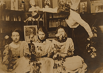 Photograph shows Green, Oakley, and Smith seated, each holding a rose, while Cozens holds a watering can over their heads, pretending to water them. Identification on verso (handwritten): The red roses; Elizabeth Shippen Green, Violet Oakley, Jessie Willcox Smith, Henrietta Cozens; with Violet Oakley poster [in background] for first exhibition at the Plastic Club; taken at 1523 Chestnut Street, when they planned to move to "The Red Rose", Villanova.